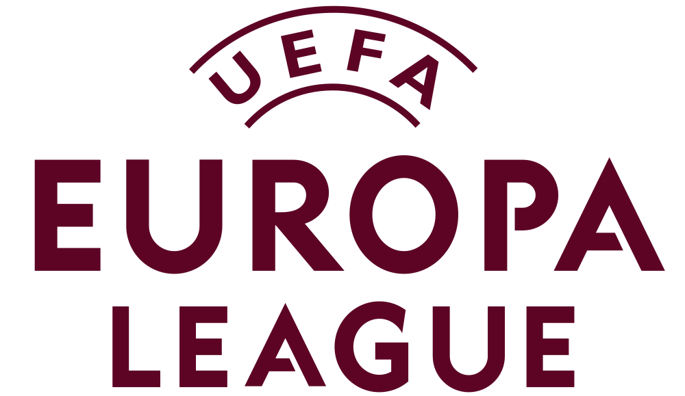 uefa europa logo